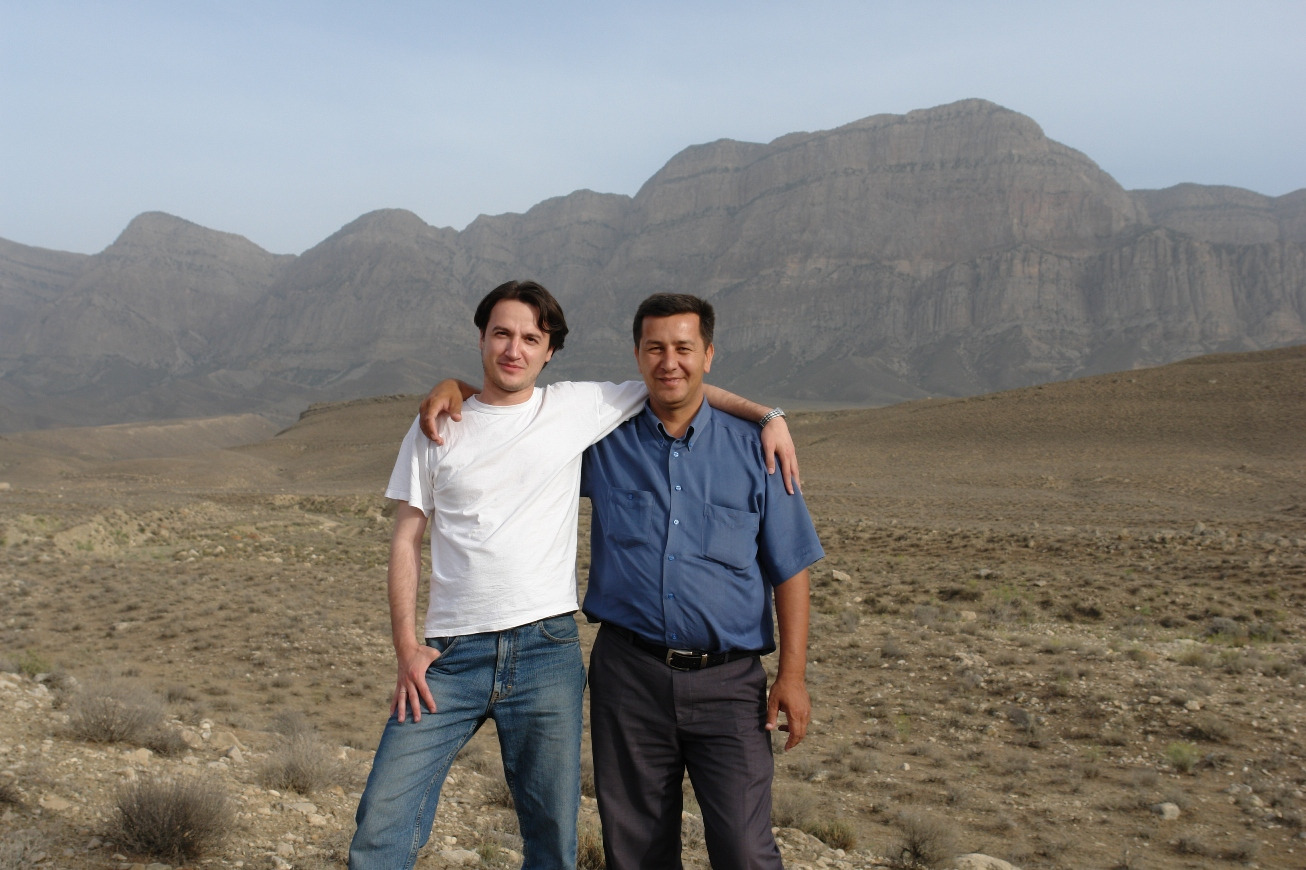 Djemshid and Byashim are in the front of Balkan mountains, Dasharvat area, Nebit-dag, Balkan velayat, Turkmenistan.